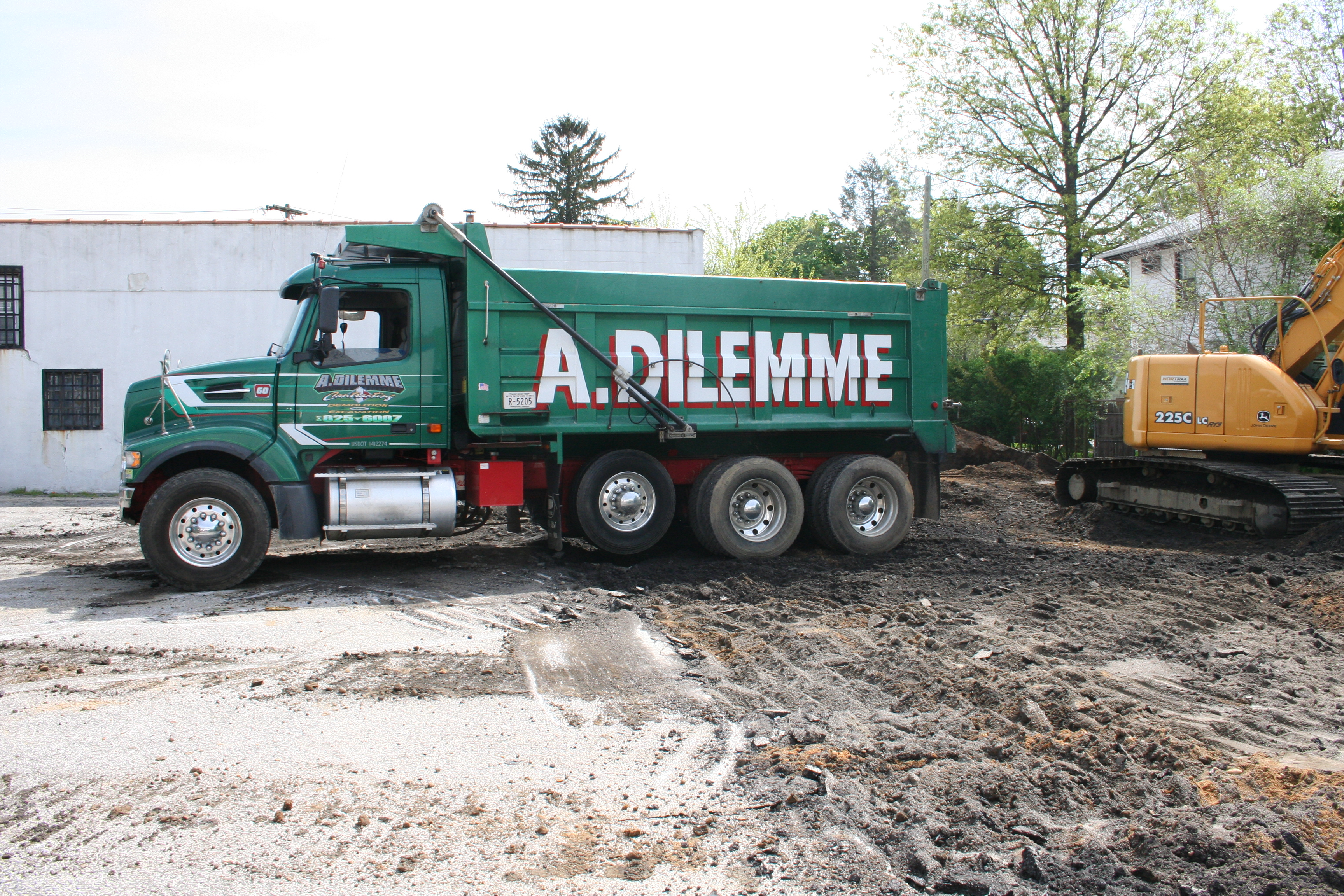 Volvo VHD Tri Axle Dump Truck